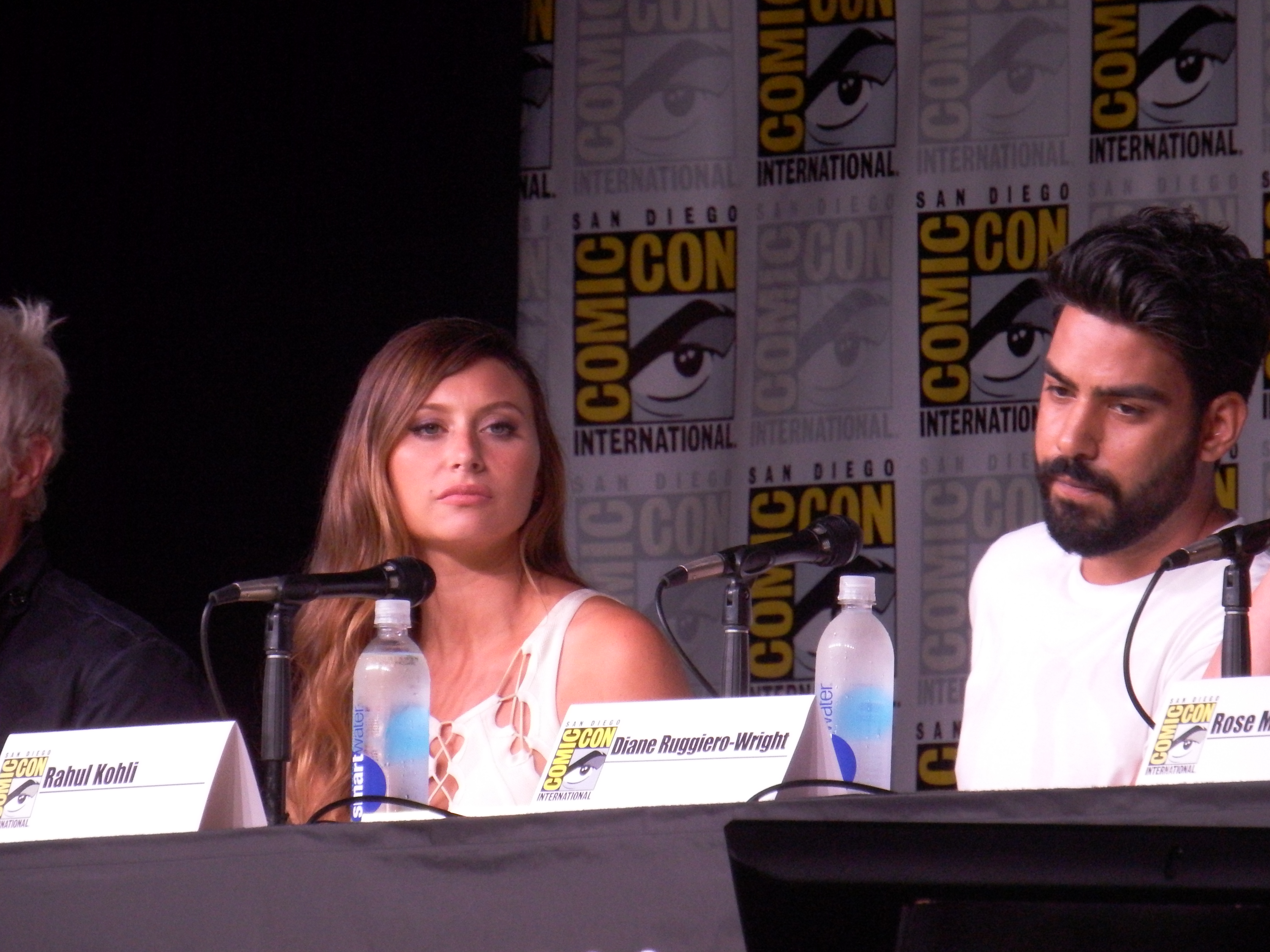 Aly Michalka and Rahul Kohli @ Izombie panel SDCC 2016